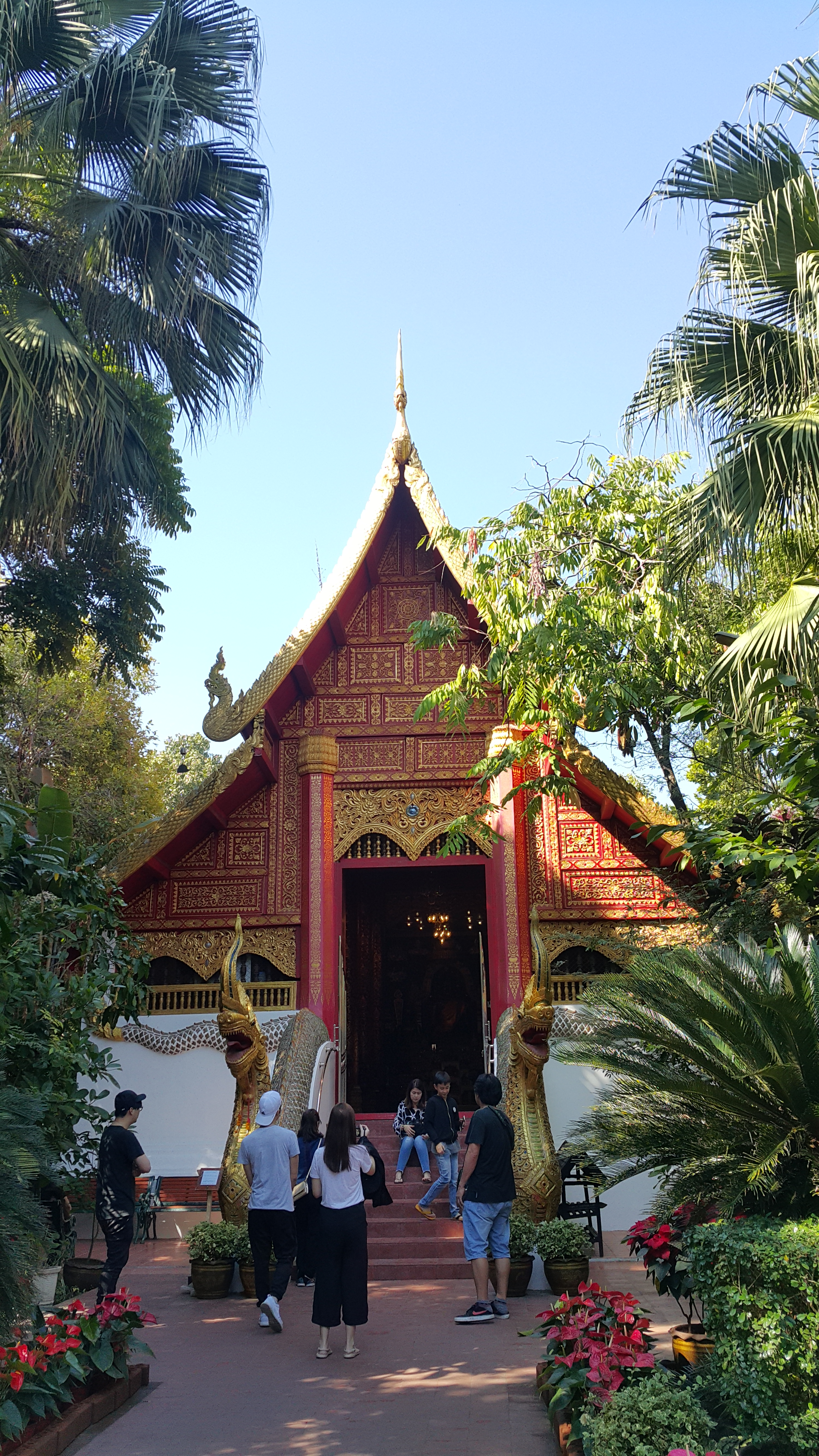 Wat Phra Kaew Chiang Rai, Thailand